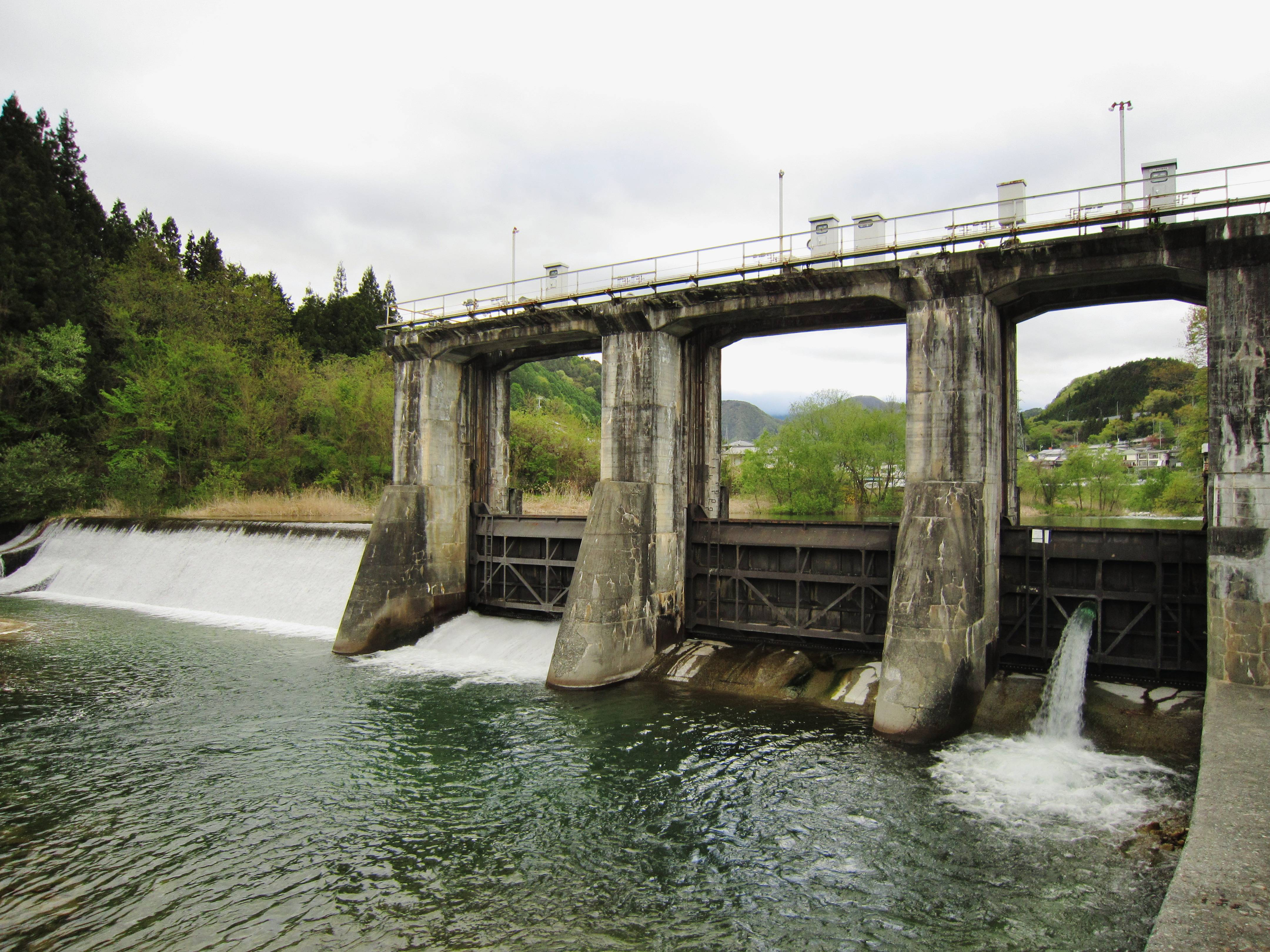 Miho power station weir.